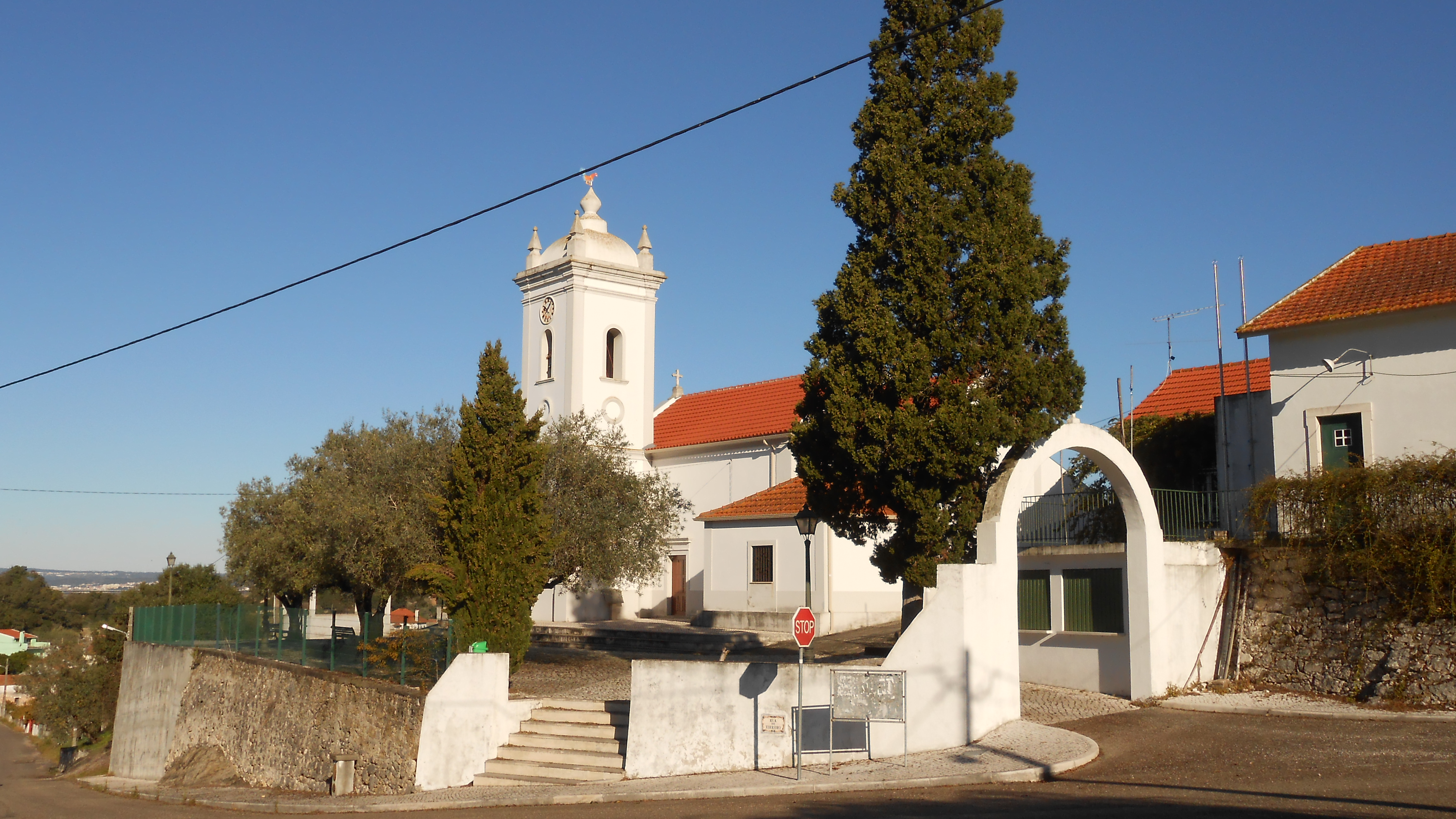 Church in Pedrógão do Pranto, a village in the parish of Vinha da Rainha.